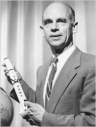 Ernst Stuhlinger holds a model of the Juno I rocket used to launch Explorer I, the first U.S. satellite, in 1958.